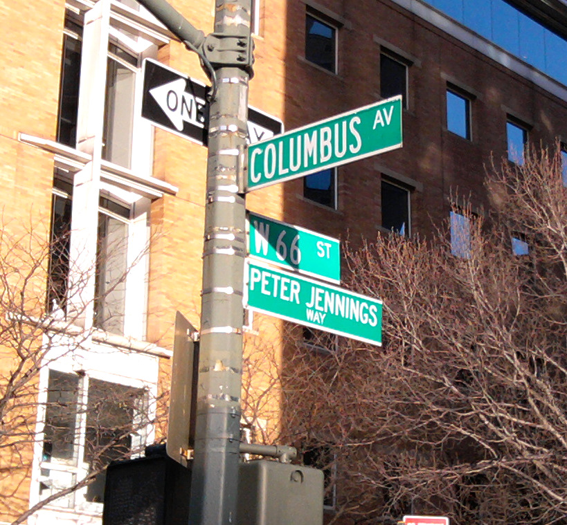 Looking northeast at celebrity streetsign on a sunny afternoon.